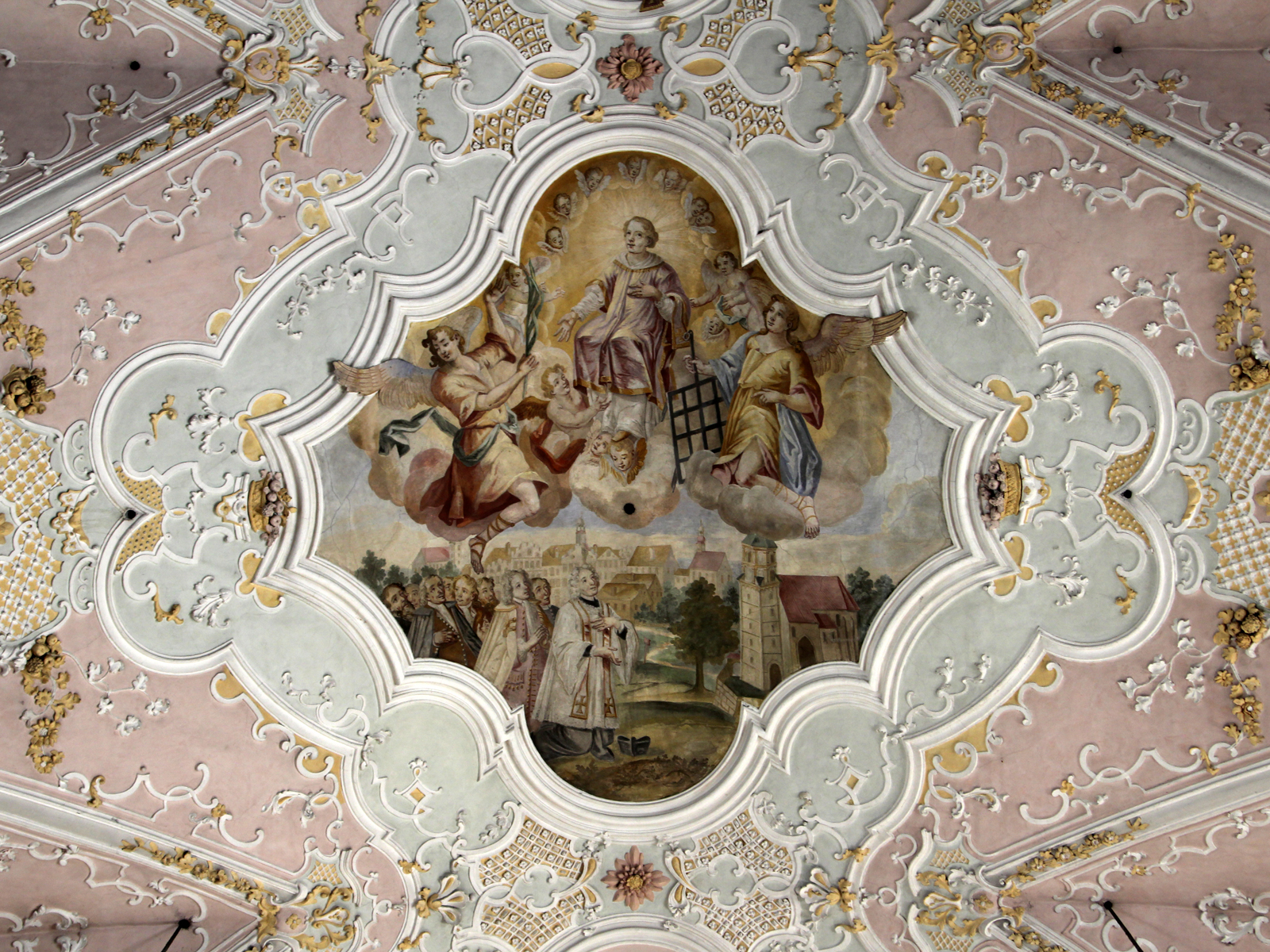 Detail des Deckenfreskos in der Pfarrkirche St. Laurentius Altheim, OÖ